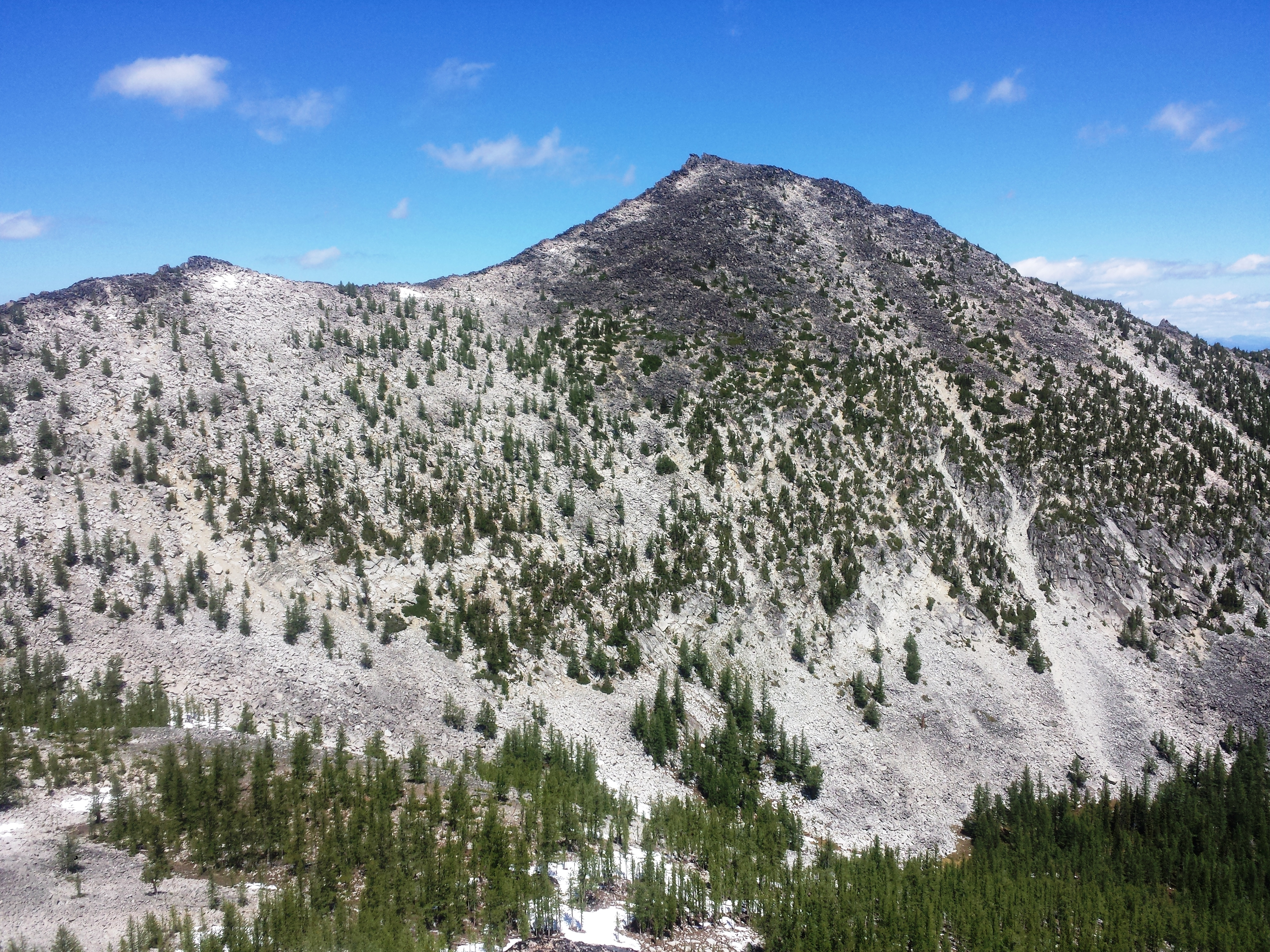 The trees are mainly Larix lyallii (Subalpine larch) We ended up traversing around this cirque, to the saddle. We did not go up the peak, instead descended down the slope. Elevation 2440 meters (8000 feet) Lake Chelan-Sawtooth Wilderness IMG_20150620_115720